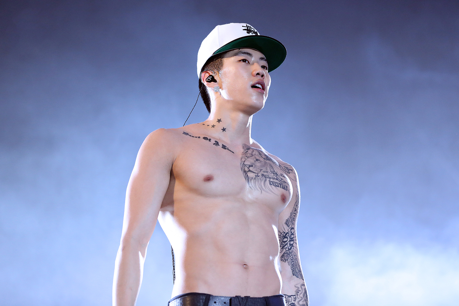 Jay Park performing